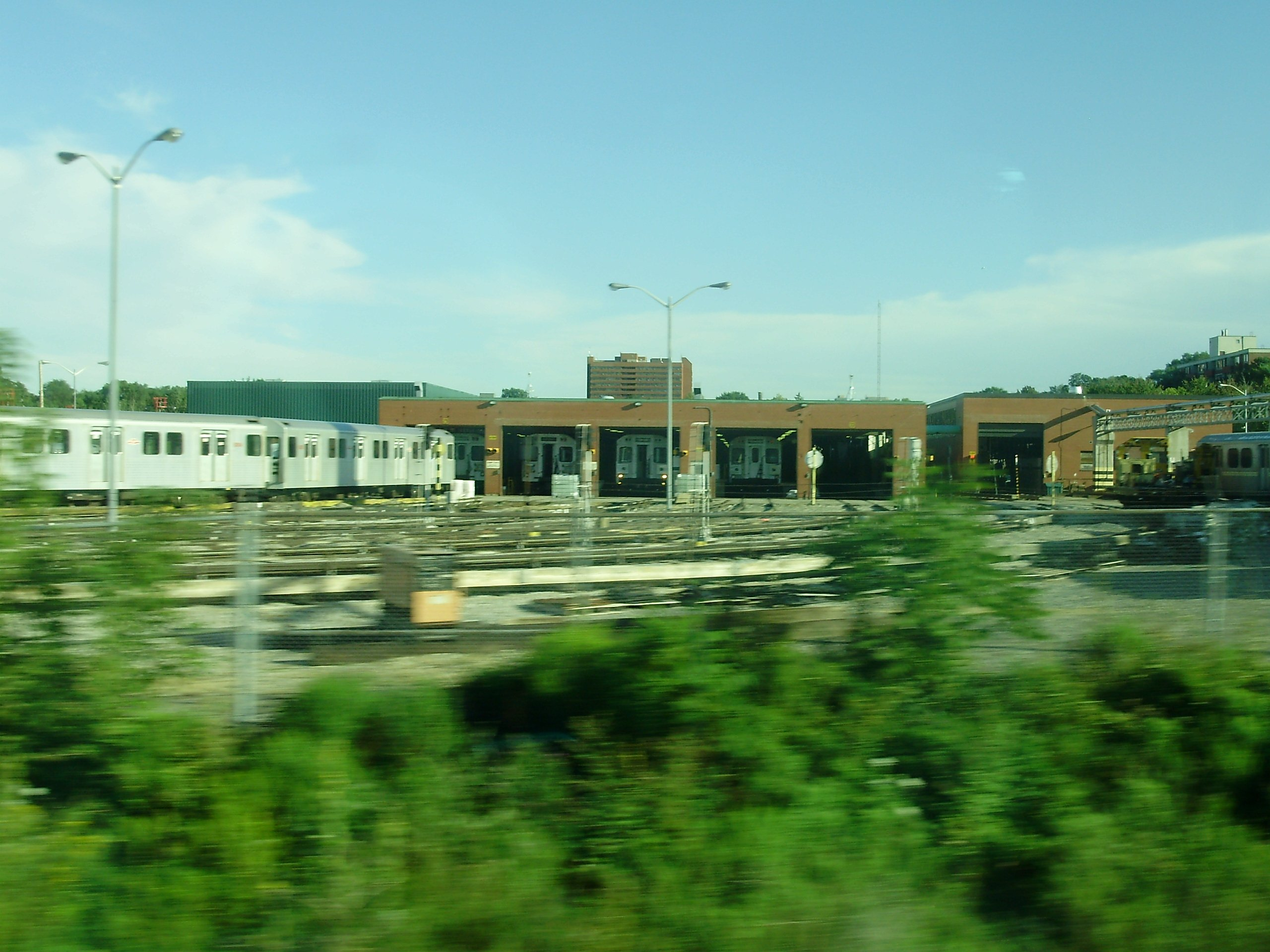 The Toronto Transit Commission's Greenwood Yard, a major subway train maintenance and marshalling facility, in Toronto, Ontario, Canada. Photographed from the north side of an eastbound GO Transit Bombardier BiLevel coach on the Lakeshore East line.